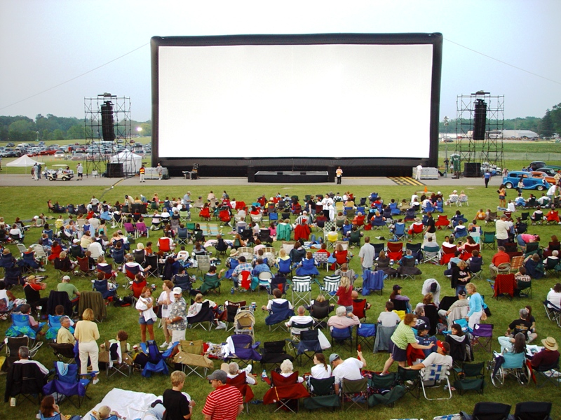 Airscreen auf dem James Dean Festival in Marion, Indiana, USA